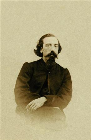 Maksymilian Fajans (1825-1890) - a Polish artist, drawer and photographer.